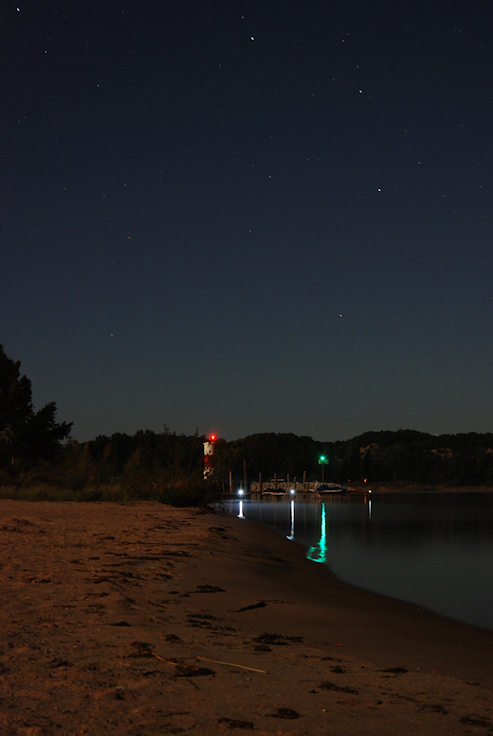 Muskegon Lake at Harbour Towne Beach in Muskegon, Michigan